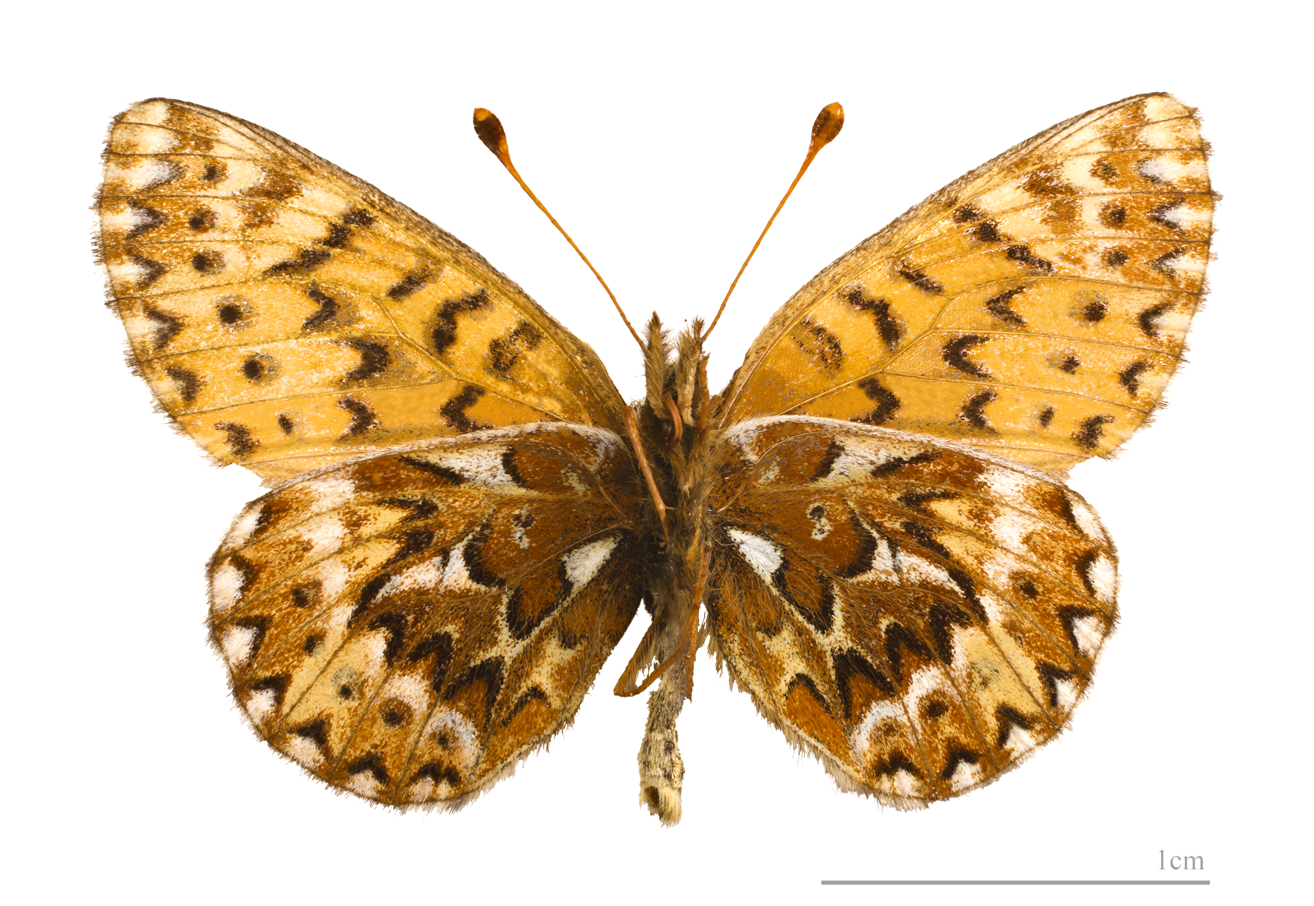 Freija Fritillary ♂ - △ Ventral side Locality: Glacier National Park, Montana, USA